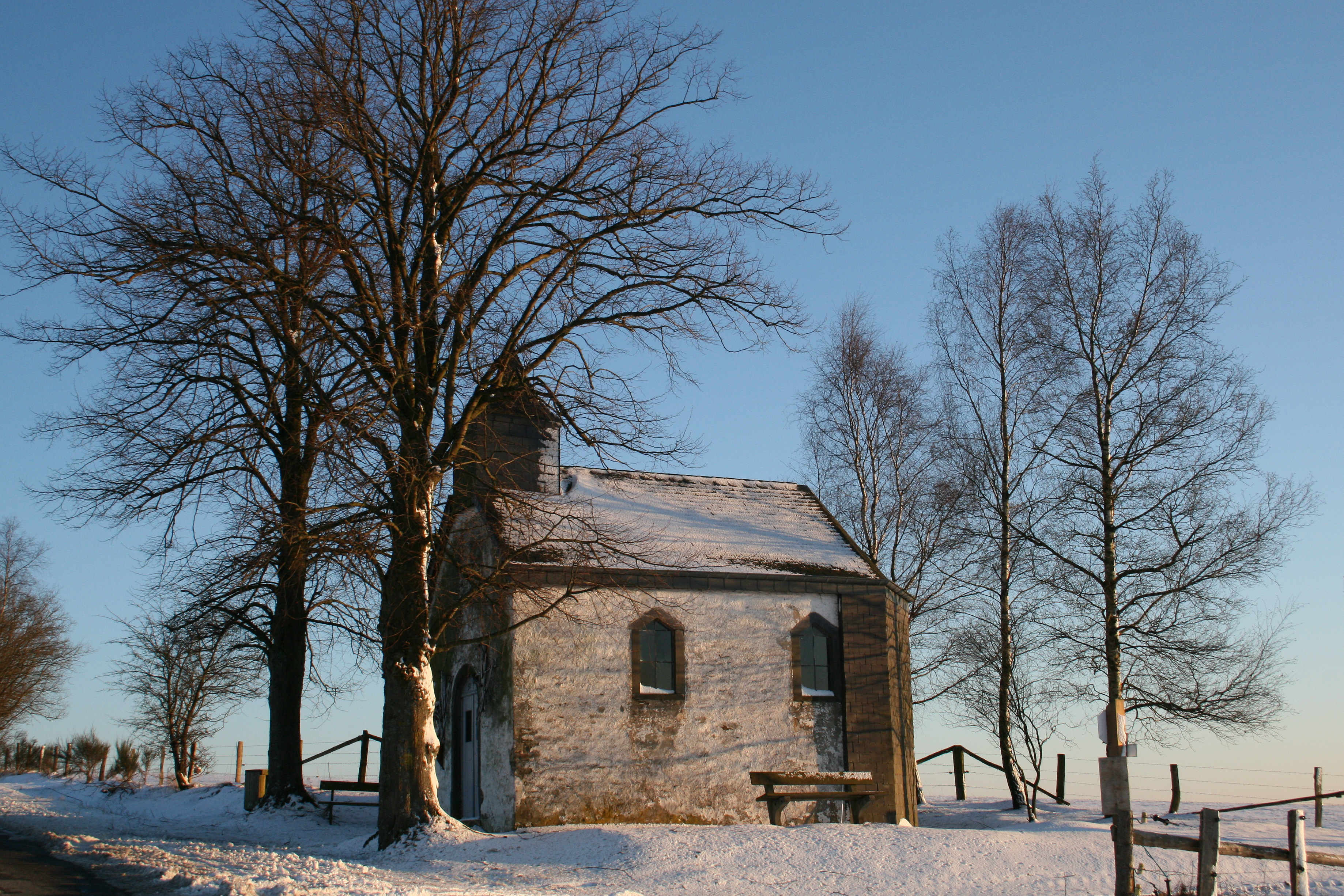 Bérismenil (Belgium), the Notre-Dame de Lourdes and Saint Gotte chapel (1882).